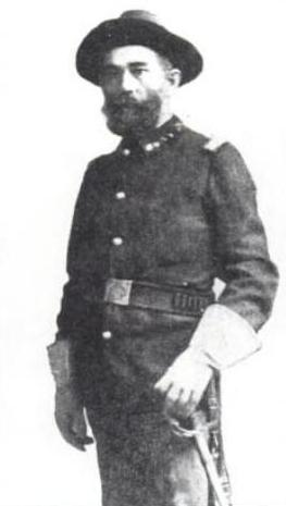 Photograph of Daniel A. Currie